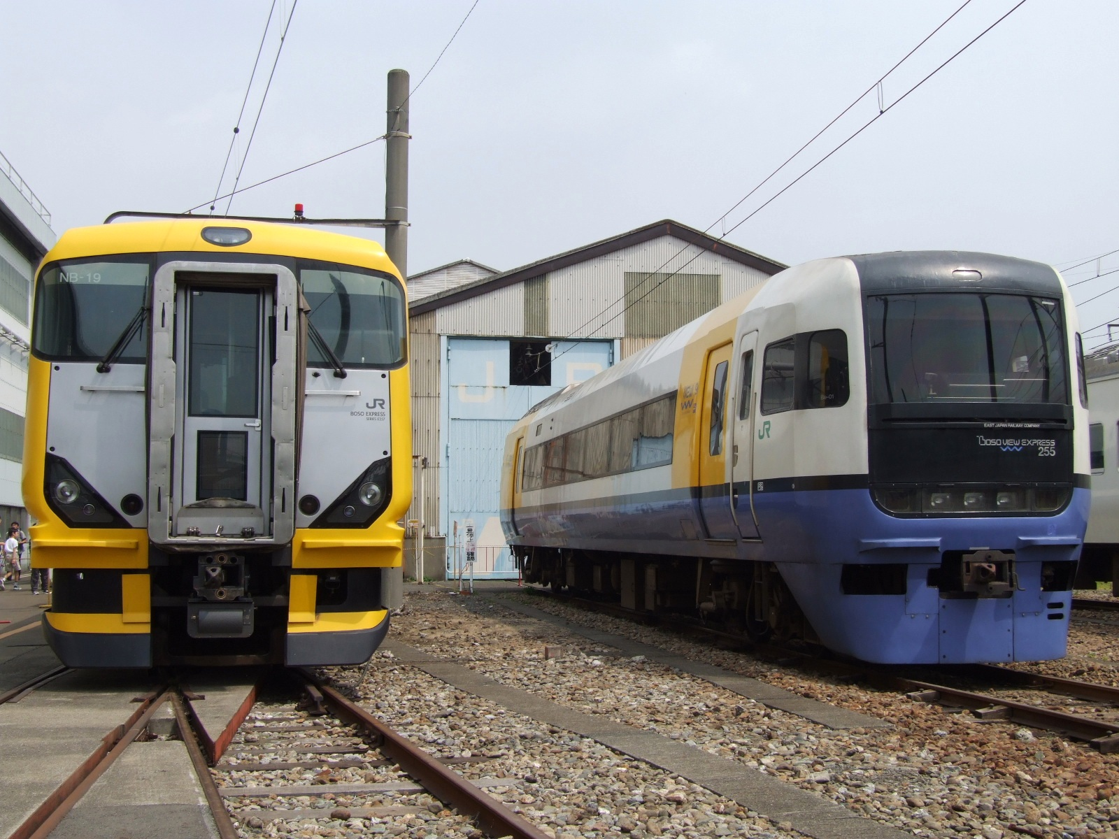 JR East E257-500 series (left) and 255 series (right) EMU cars on display at Omiya Works Open Day